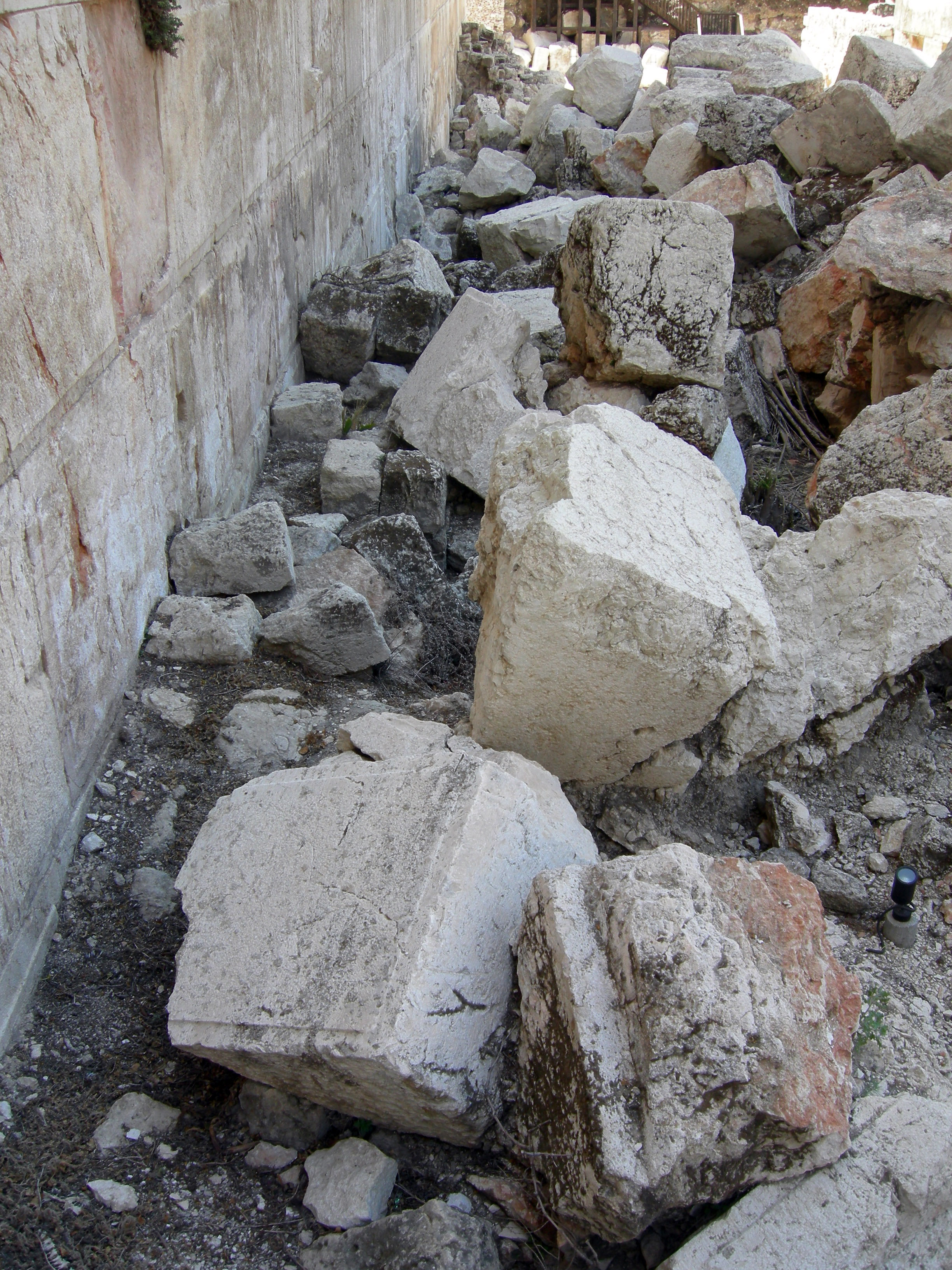 Excavated stones from the Wall of the 2nd Temple (Jerusalem), knocked onto the street below by Roman battering rams in on the 9th of Av, 70 C.E. This first century street is located at the base of the Temple Mount where the western and southern walls meet. The property may be accessed via the Davidson Archeological Center in Jerusalem.